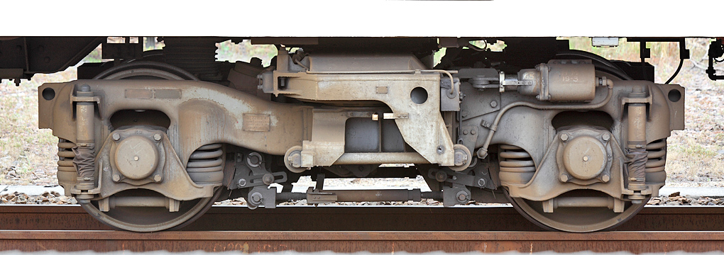 Type DT32E bogie truck of JNR 117 series EMU, belongs to the JR Central.